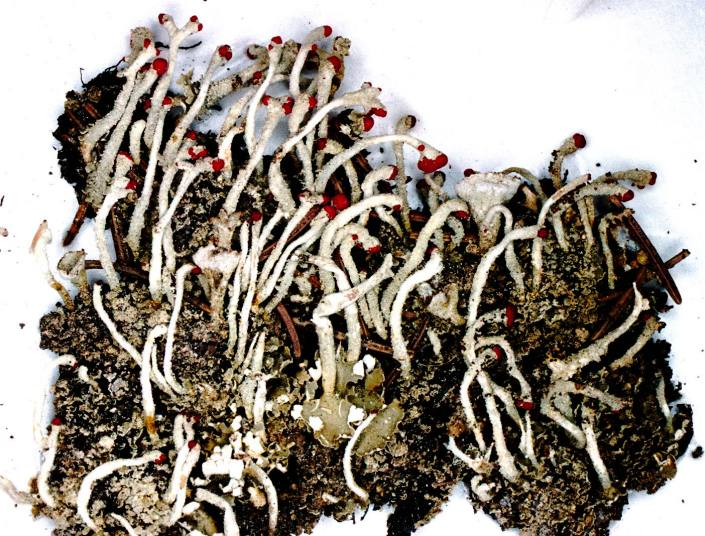 Cladonia macilenta var. macilenta Hoffm., 1796 Photograph of a herbarium specimen. (Spot test reactions on podetia: PD+ dark yellow, K+ yellow) These specimens were growing on soil on a rock along Trail 517 about 1 mile from Forest Service Road 19, in the Dolly Sods Wilderness Area of the Monongahela National Forest, Randolph County, West Virginia, USA. Collected and identified by E.C. Uebel (No. U-47, 19 May 2001).